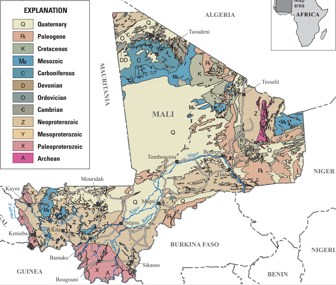 Mali geologic map